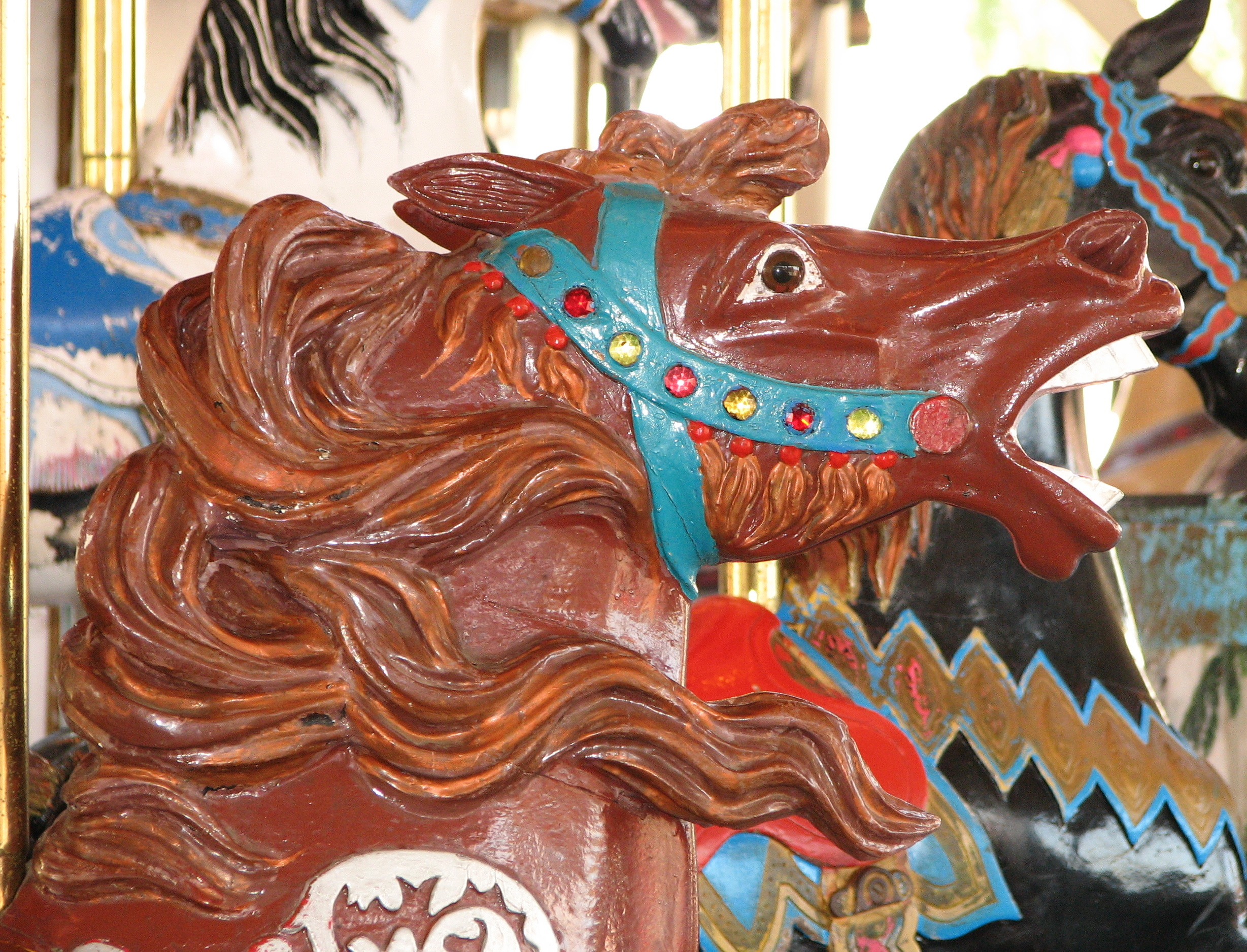 The Herschell–Spillman Noah's Ark Carousel at Oaks Amusement Park in Portland, Oregon, United States.